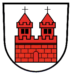 Coat of arms of Bollschweil